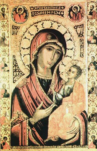 Reproduction de lIcône d'Iviron, Portaitissa, Musée Bénaki.